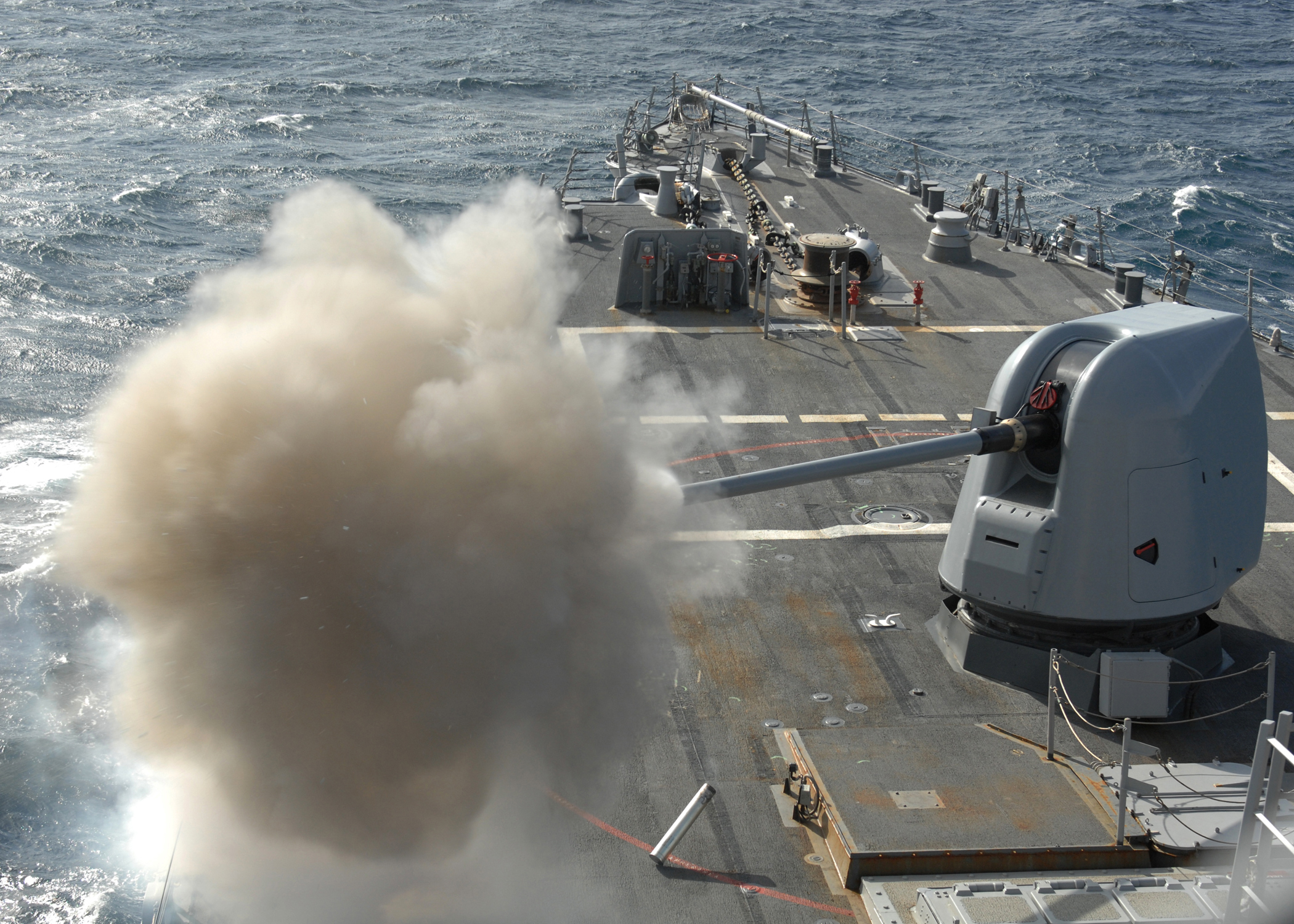 ATLANTIC OCEAN (Jan. 22, 2011) The guided-missile destroyer USS Mitscher (DDG 57) fires its MK-45 5-inch/54-caliber lightweight gun during a gun exercise. Mitscher is conducting a composite training unit exercise as part of the George H.W. Bush Carrier Strike Group to prepare for an upcoming combat deployment. (U.S. Navy photo by Mass Communication Specialist Seaman Deven B. King/Released)